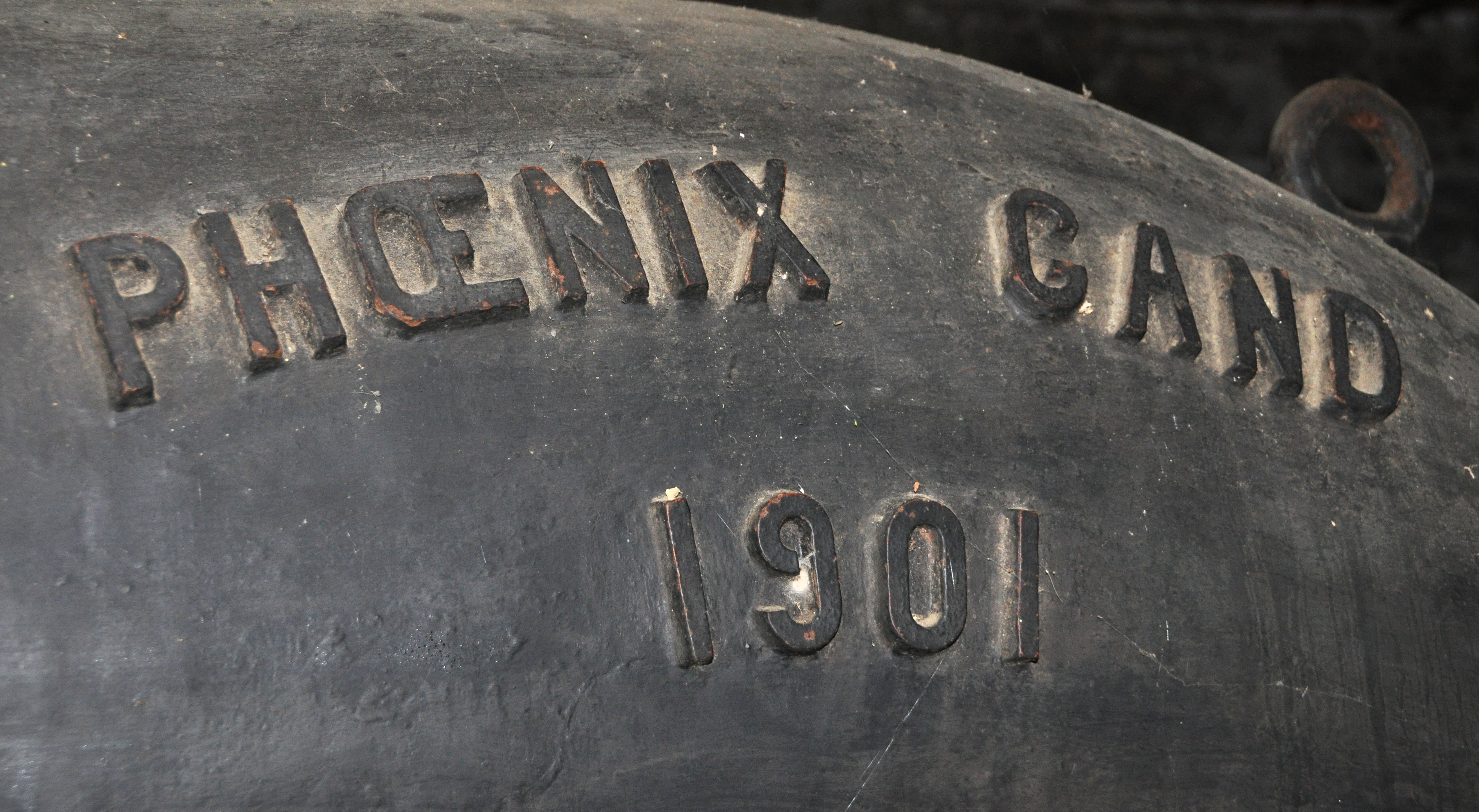 Hydraulic pump, made in 1901 by machine factory 'Le Phoenix' in Ghent (Belgium) - detail